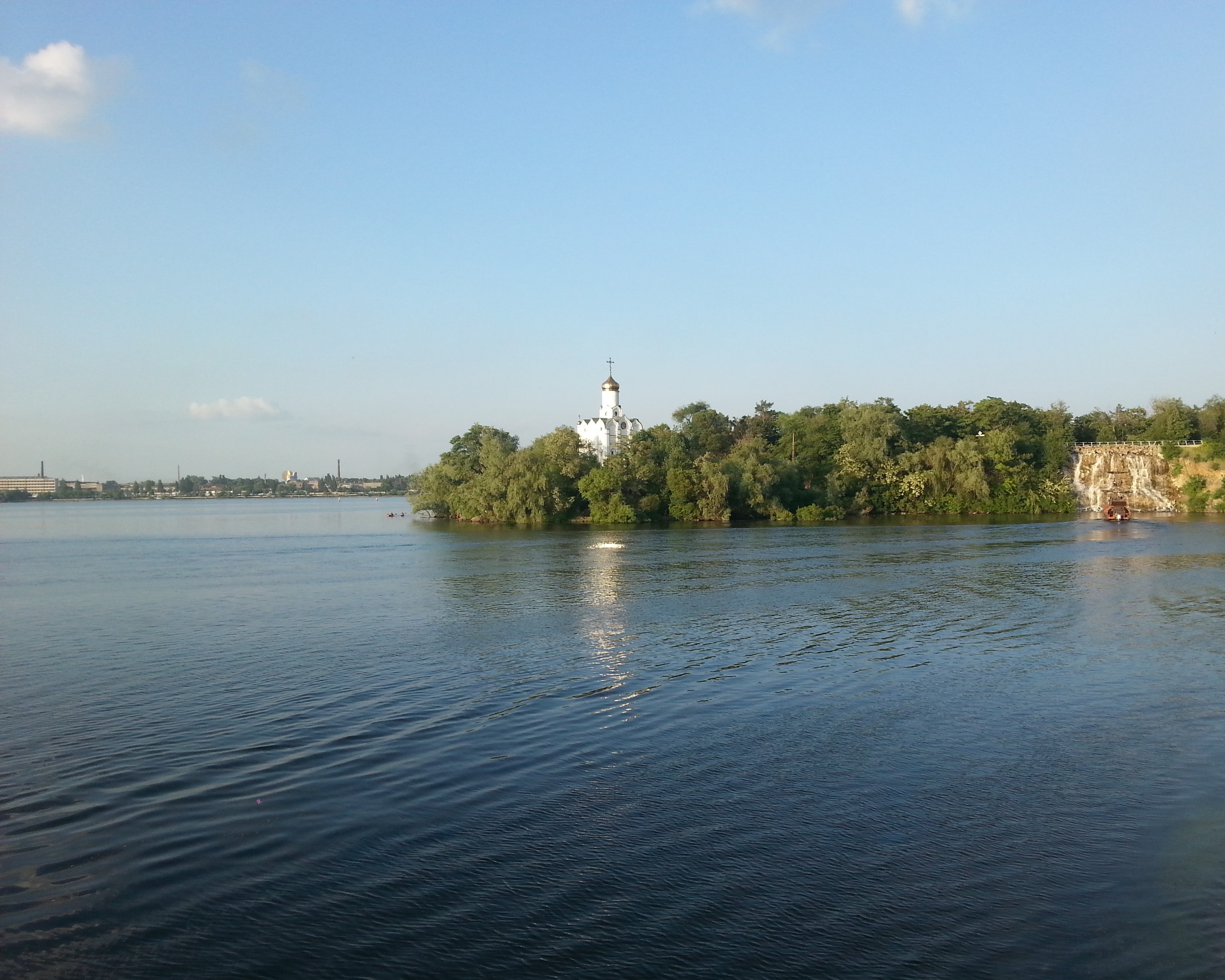 View of Monaskyskiy island, Dnipro, Ukraine.